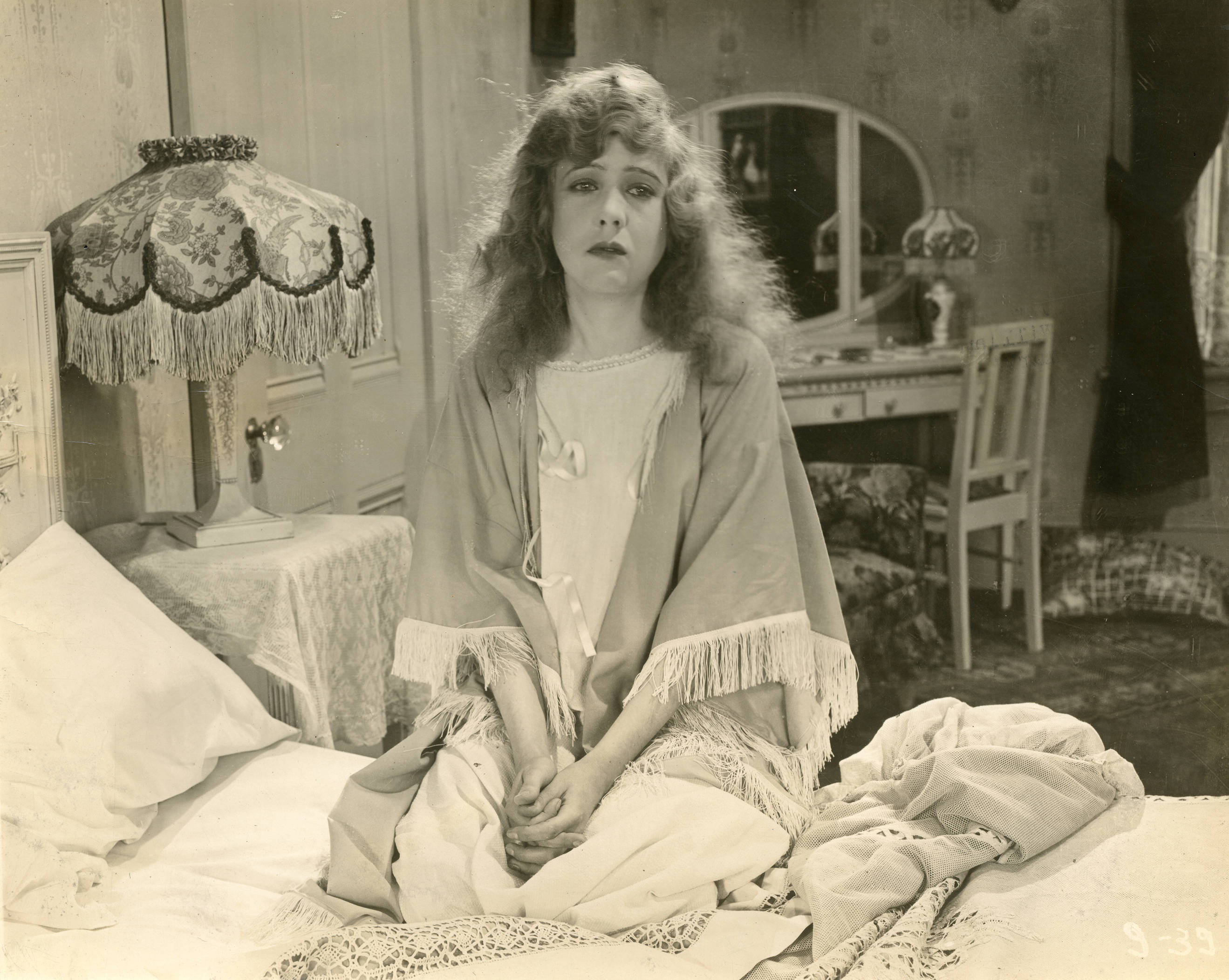 Silent film actress Jewel Carmen. Subjects: actresses